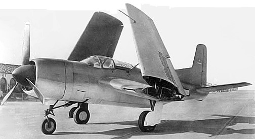 A U.S. Navy Douglas BTD-1 Destroyer with folded wings, circa 1945-1946.